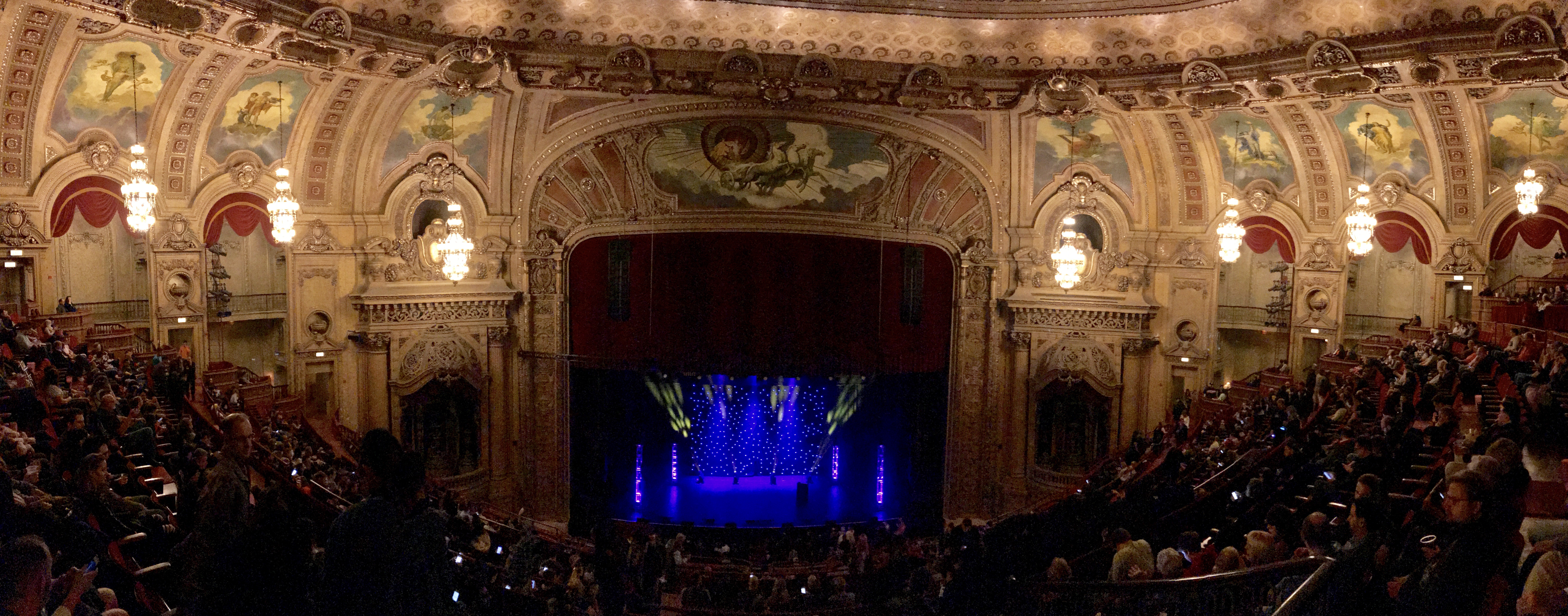 21st Anniversary Celebration